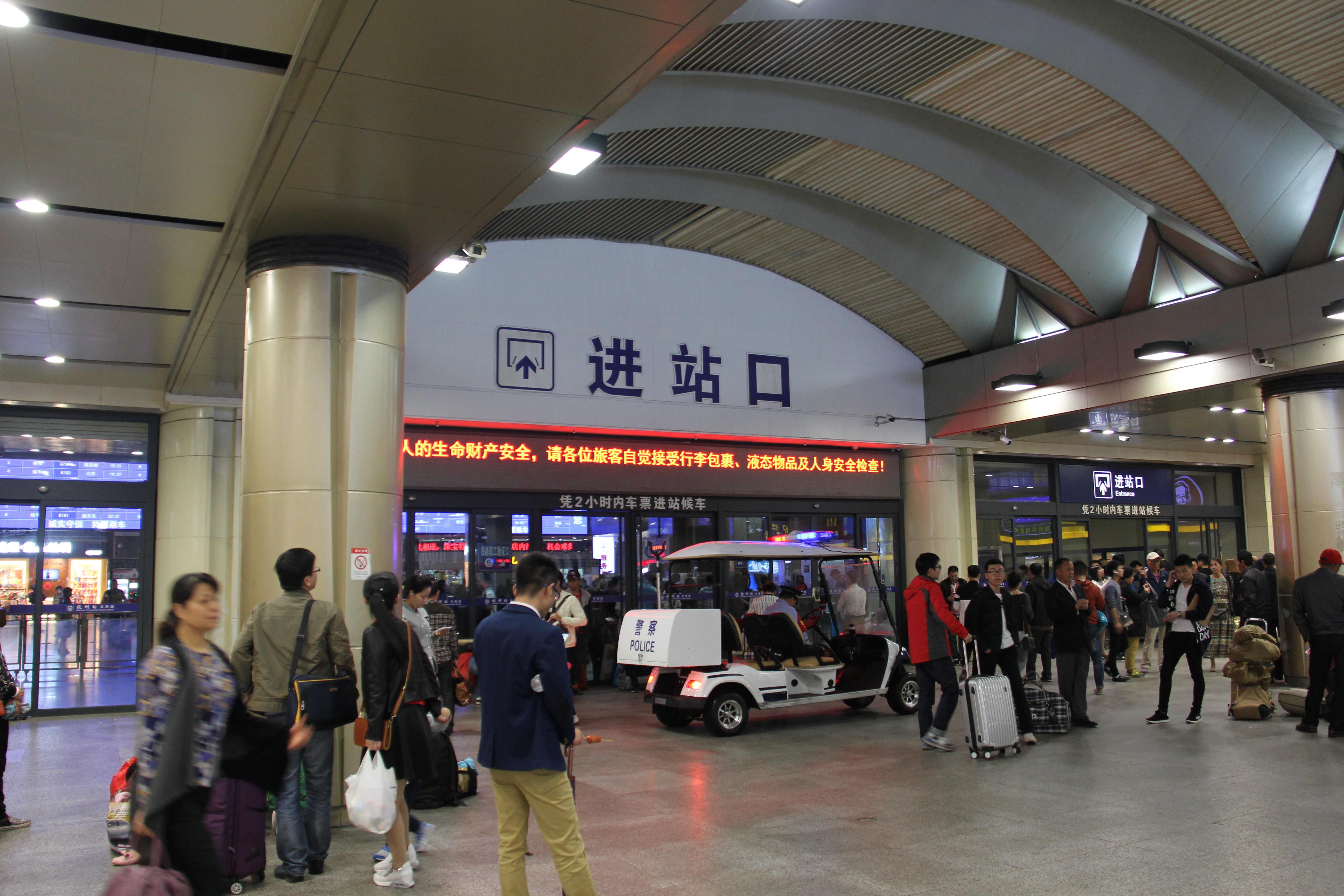 201605 Main entrance of Hangzhou Station